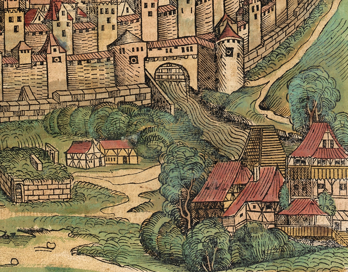 Woodcut of Nuremberg from the Nuremberg Chronicle